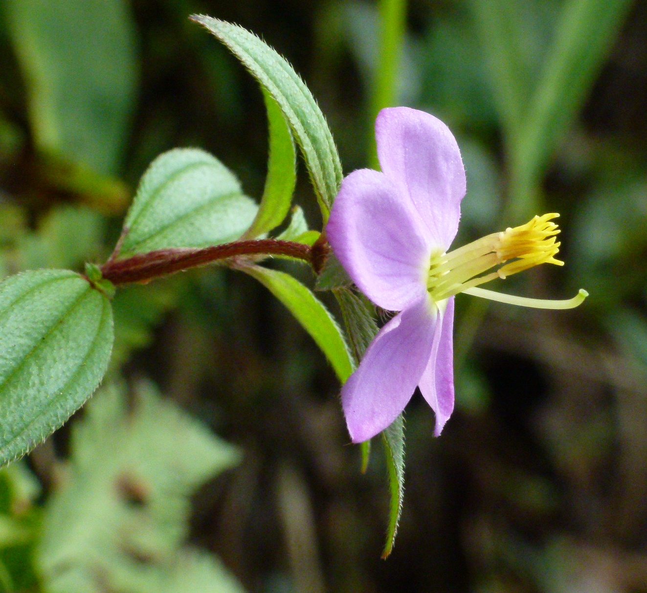 Flower of Osbeckia sp., Wynaad, India